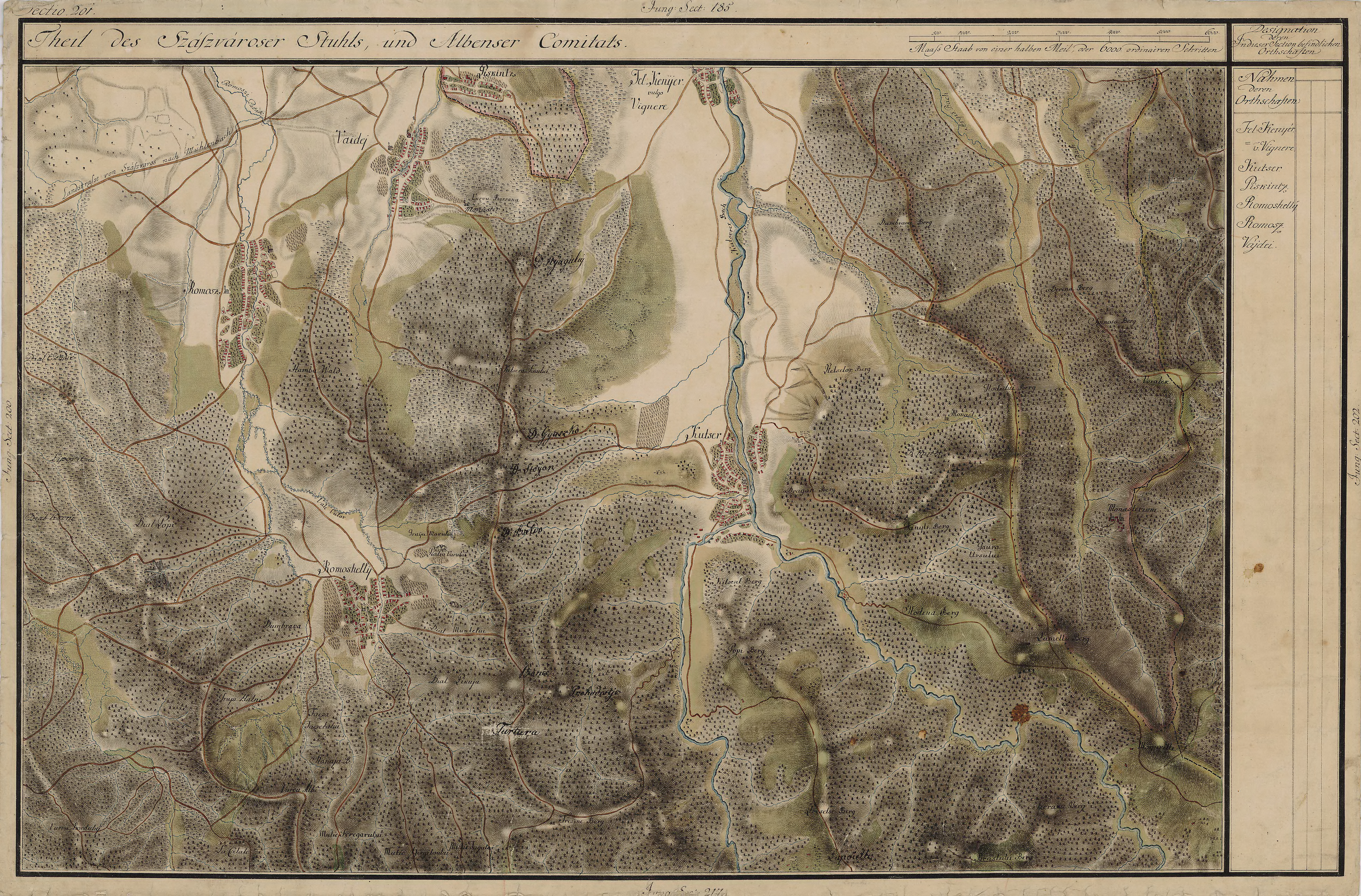 Grand Duchy of Transylvania, 1769-1773. Josephinische Landaufnahme pg.201Română: Harta Iosefină a Transilvaniei, 1769-1773. Josephinische Landaufnahme pg.201